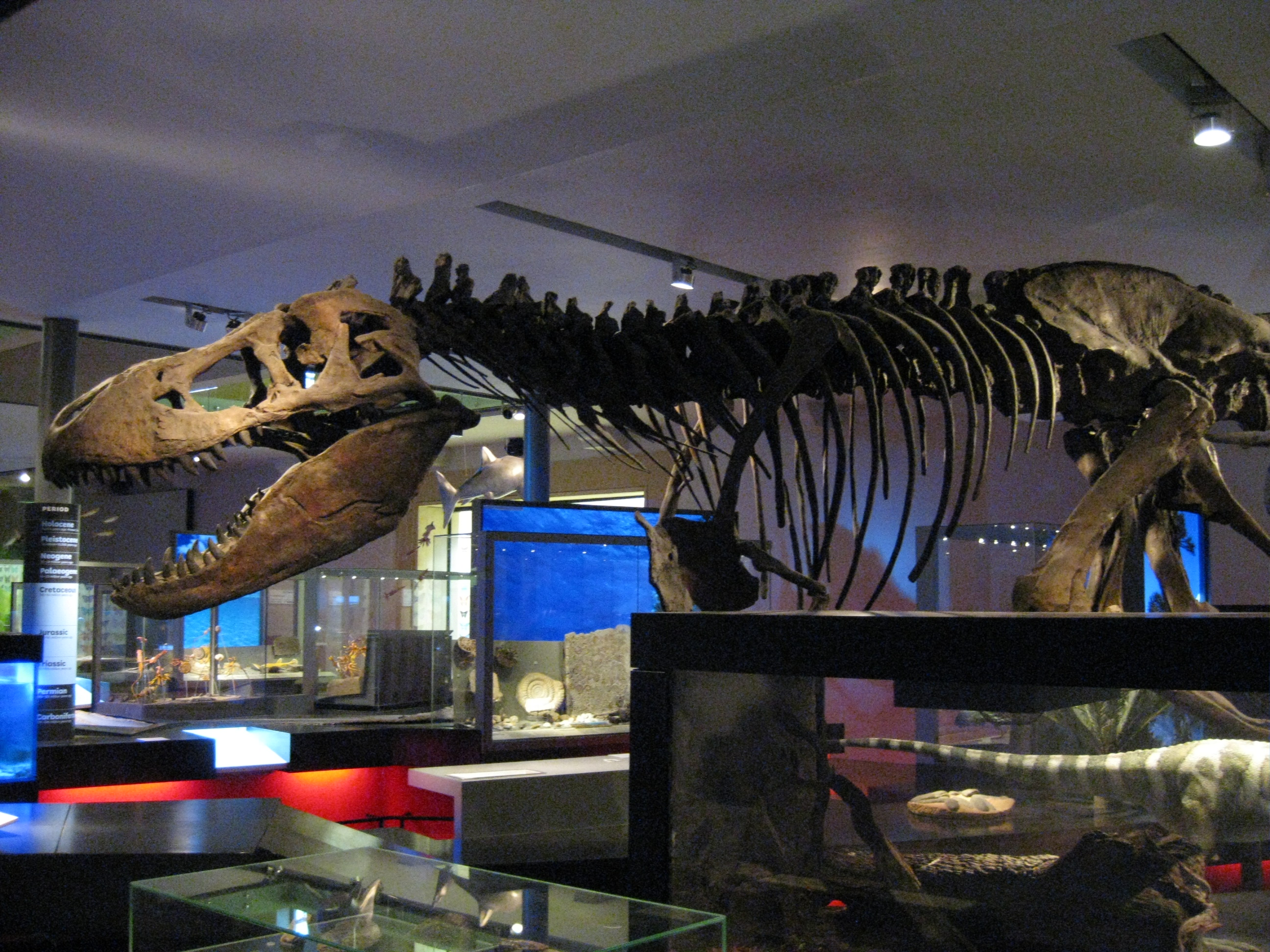 Replica of the Tyrannosaurus Rex skeleton MOR 555 ("Wankel rex") at the Hancock Museum, Newcastle-upon-Tyne, UK.